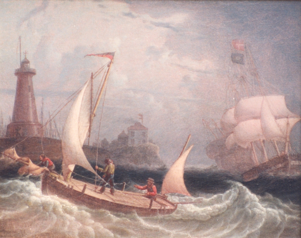 Coming into Port, by Robert Salmon. Signed Verso: R.Salmon, Manley. Dated Recto W/initials: RS-183. 15 ½ x 20 Inches